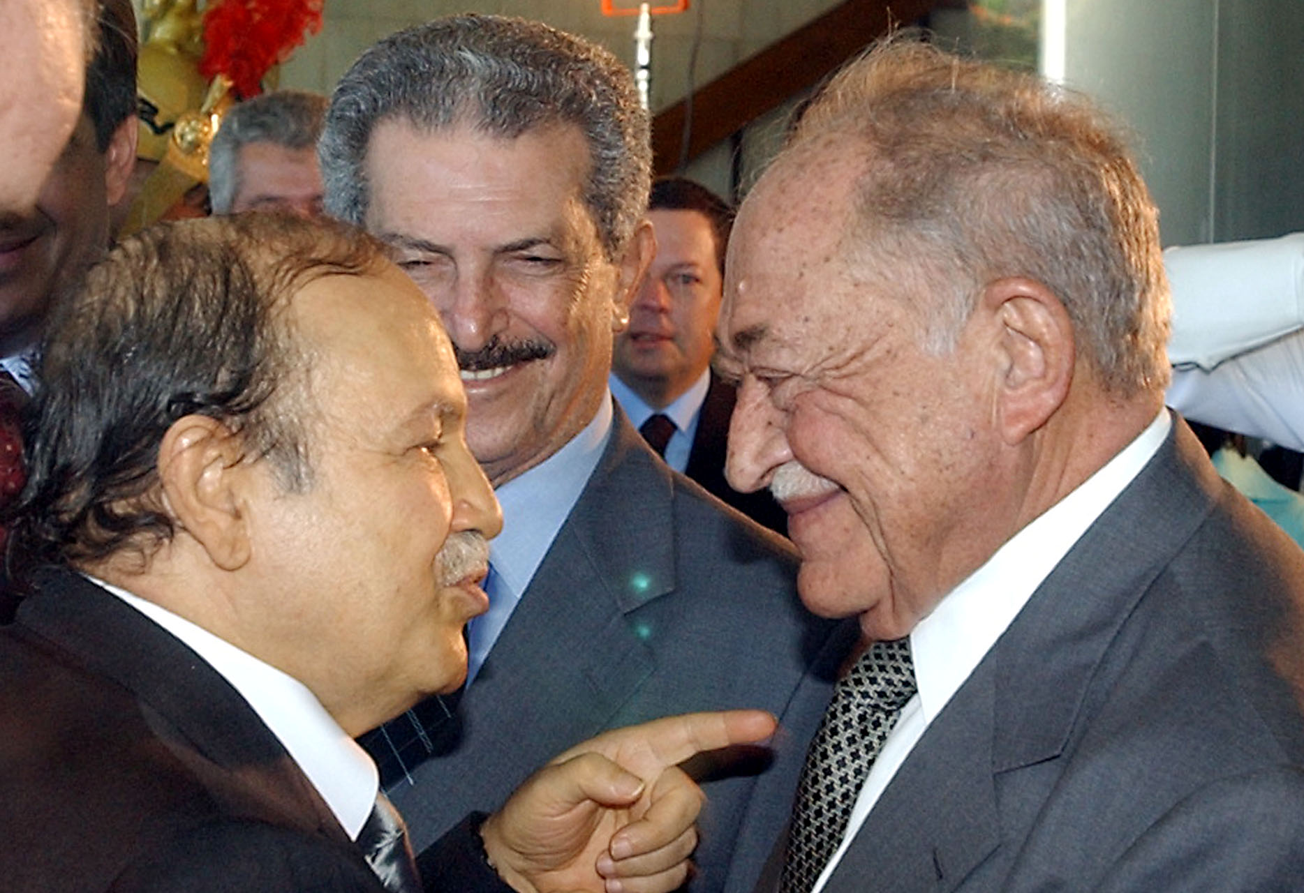 Miguel Arraes (right) and the President of Algeria, Abdelaziz Bouteflika.